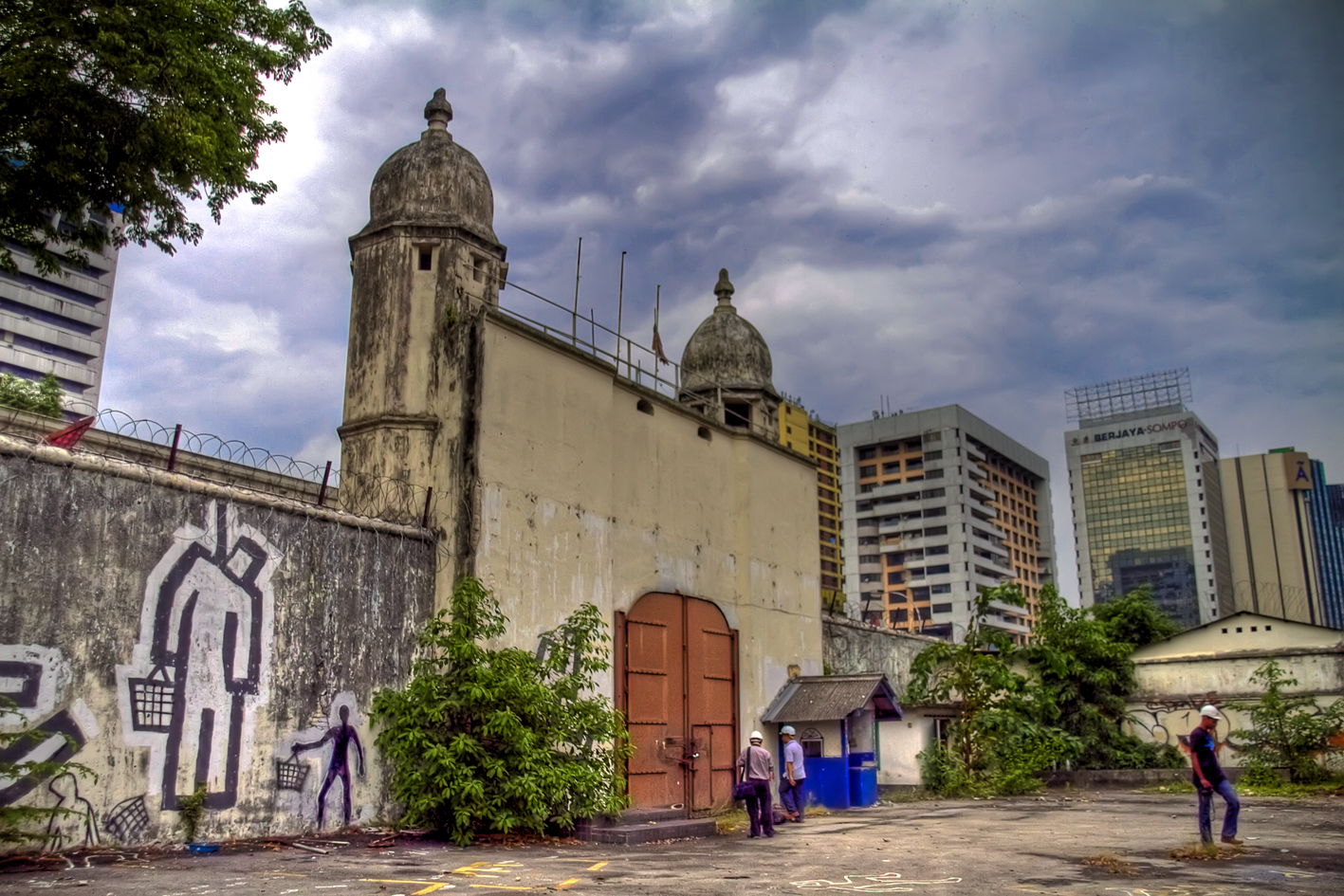 The main entrance viewed from inside of the prison.